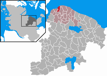 This map shows the area of the Gemeinde (municipality) Wendtorf in the Kreis (district) Plön, Schleswig-Holstein, Germany.